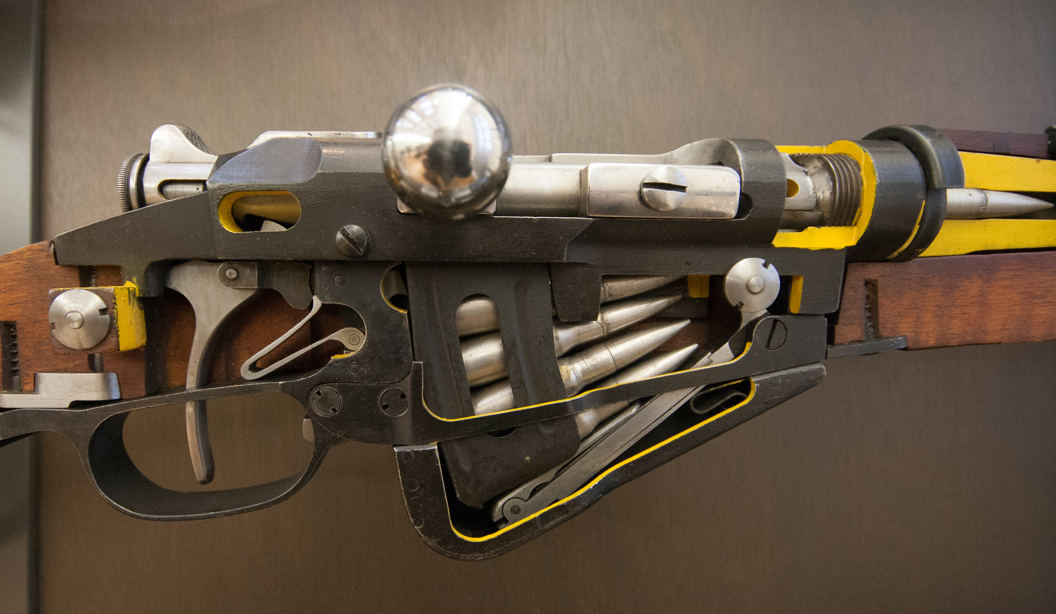 Berthier Mle1916 carbine cutaway. Weapons Department in the Museum of Art and Industry in Saint-Étienne, France.